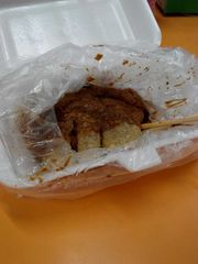 Hao Kuih